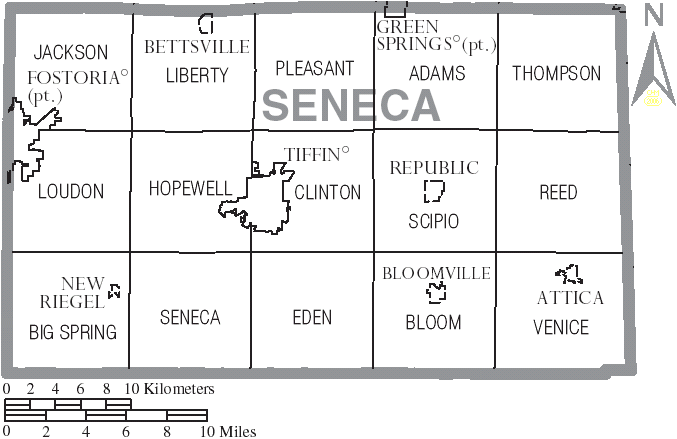 Map of Seneca County, Ohio, United States with township and municipal boundaries